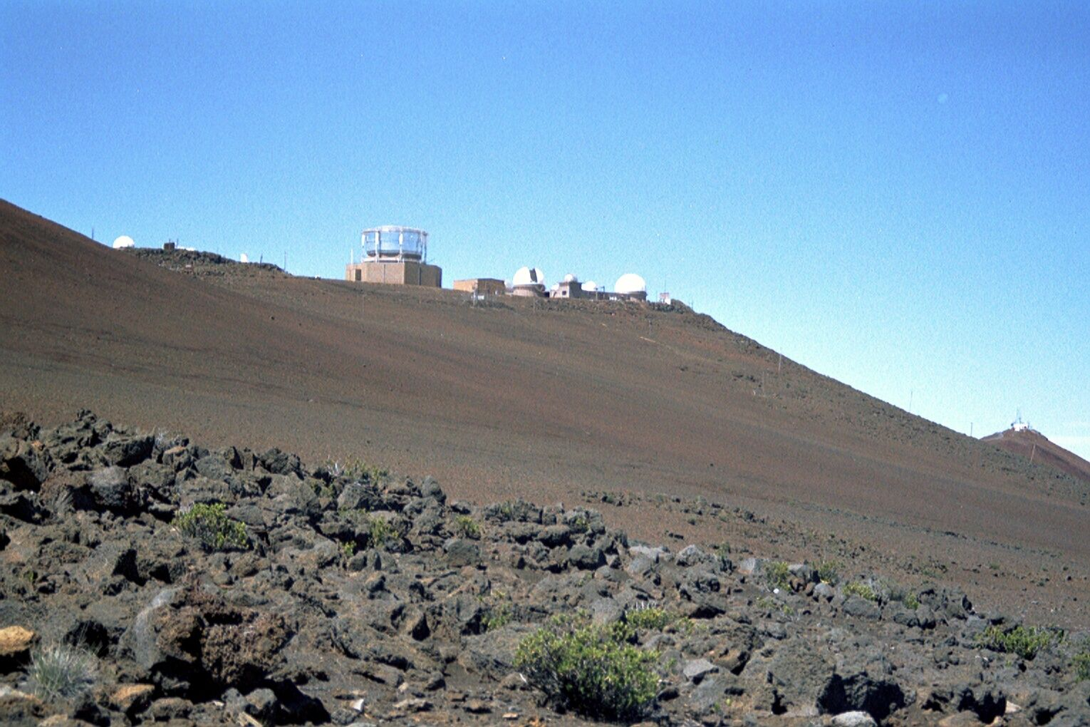 Haleakala (volcano) and the Haleakala Observatory, in Haleakala National Park on Maui.